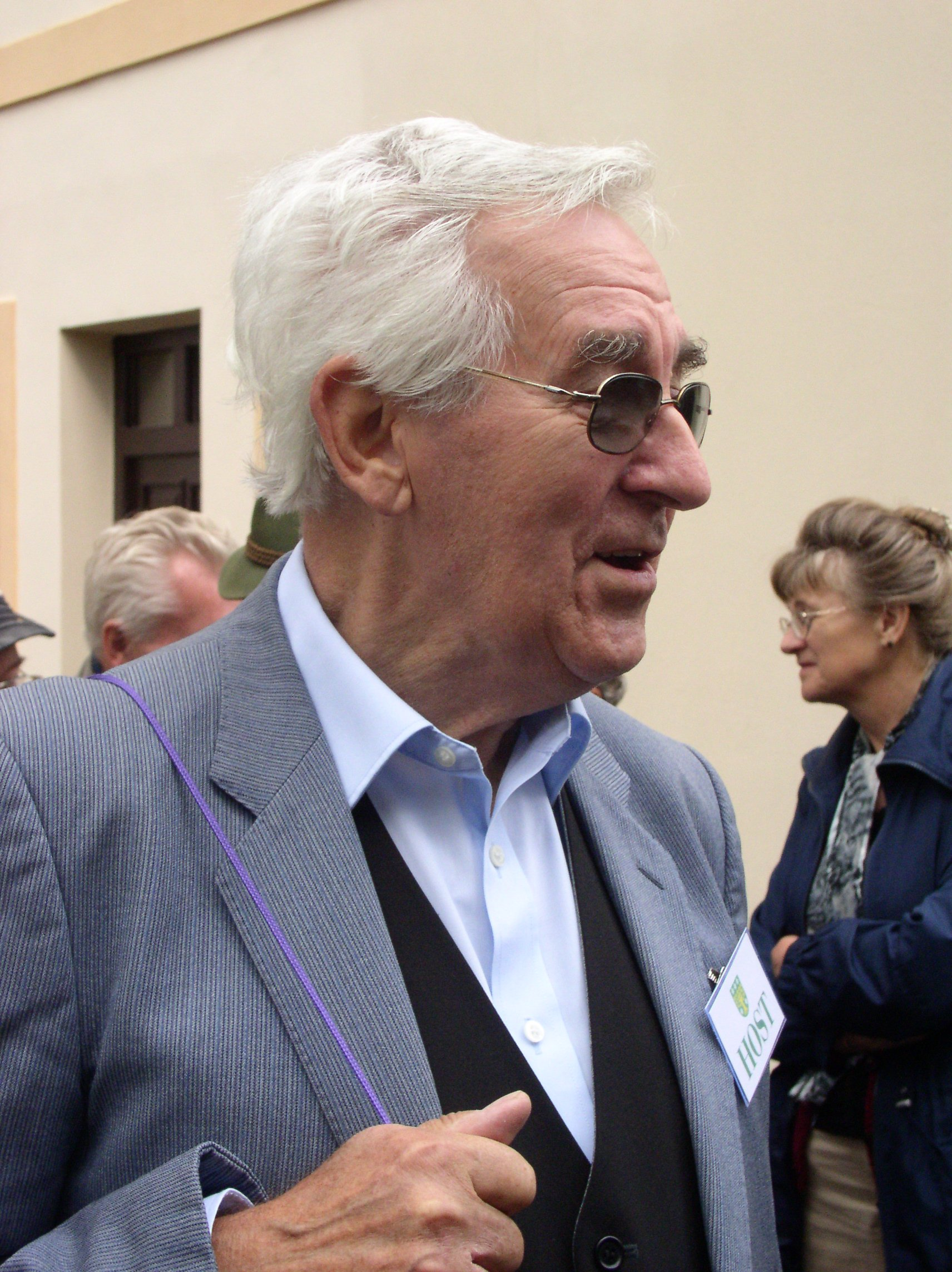 Prof. Zdeněk Kárník